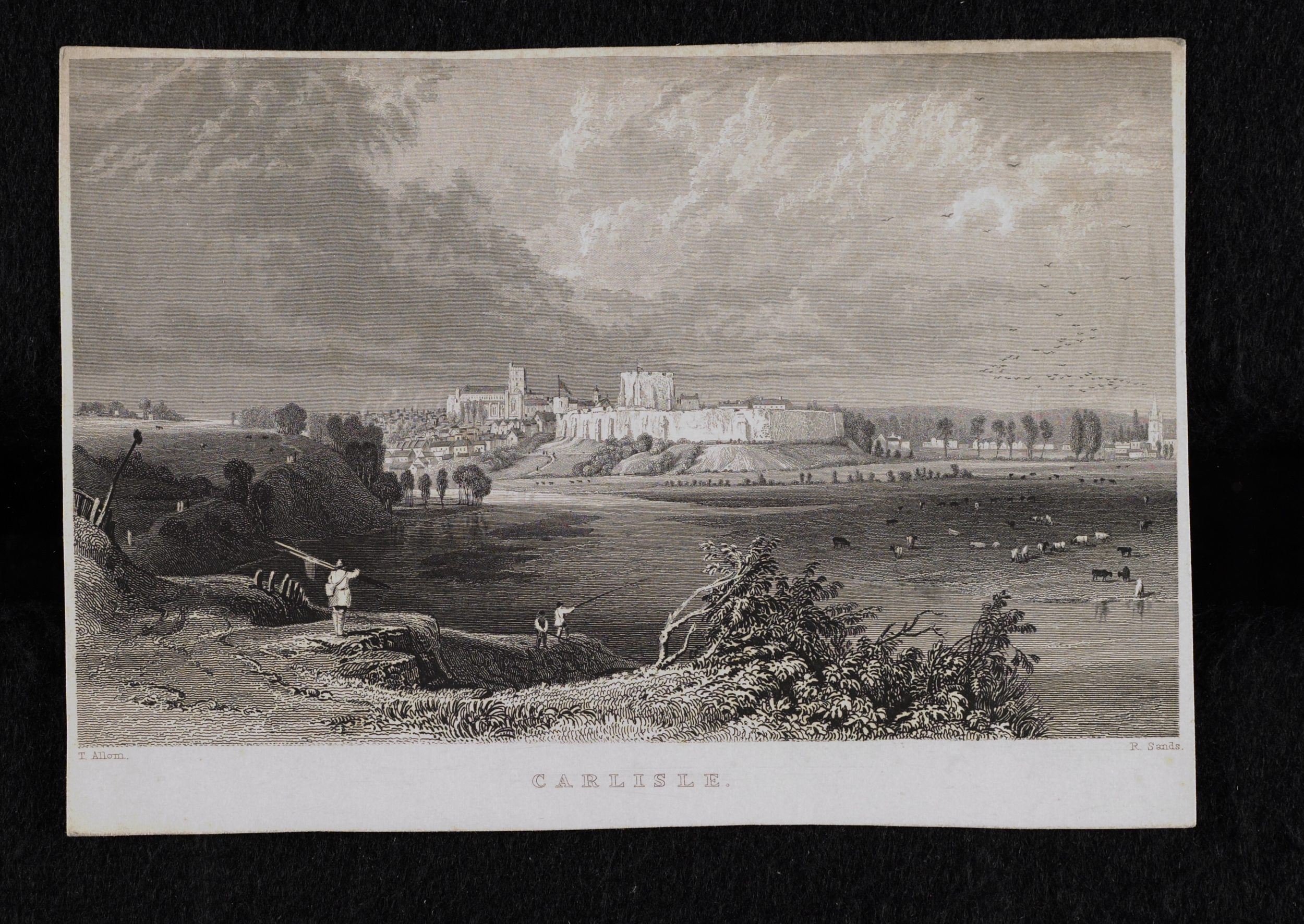 Carlisle. T. Allom & R.Sands